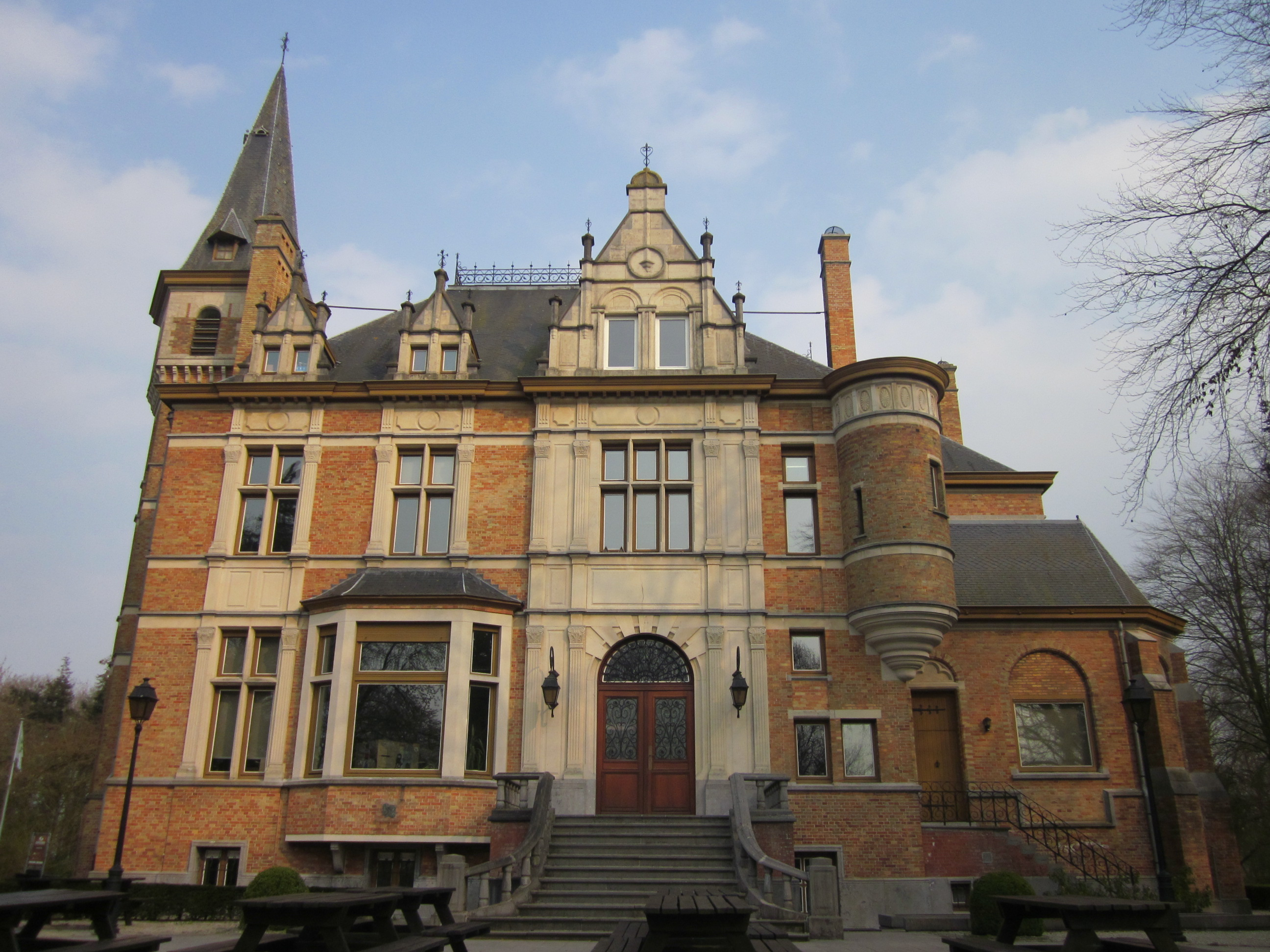 Blankaart castle in Woumen (Diksmuide), Belgium